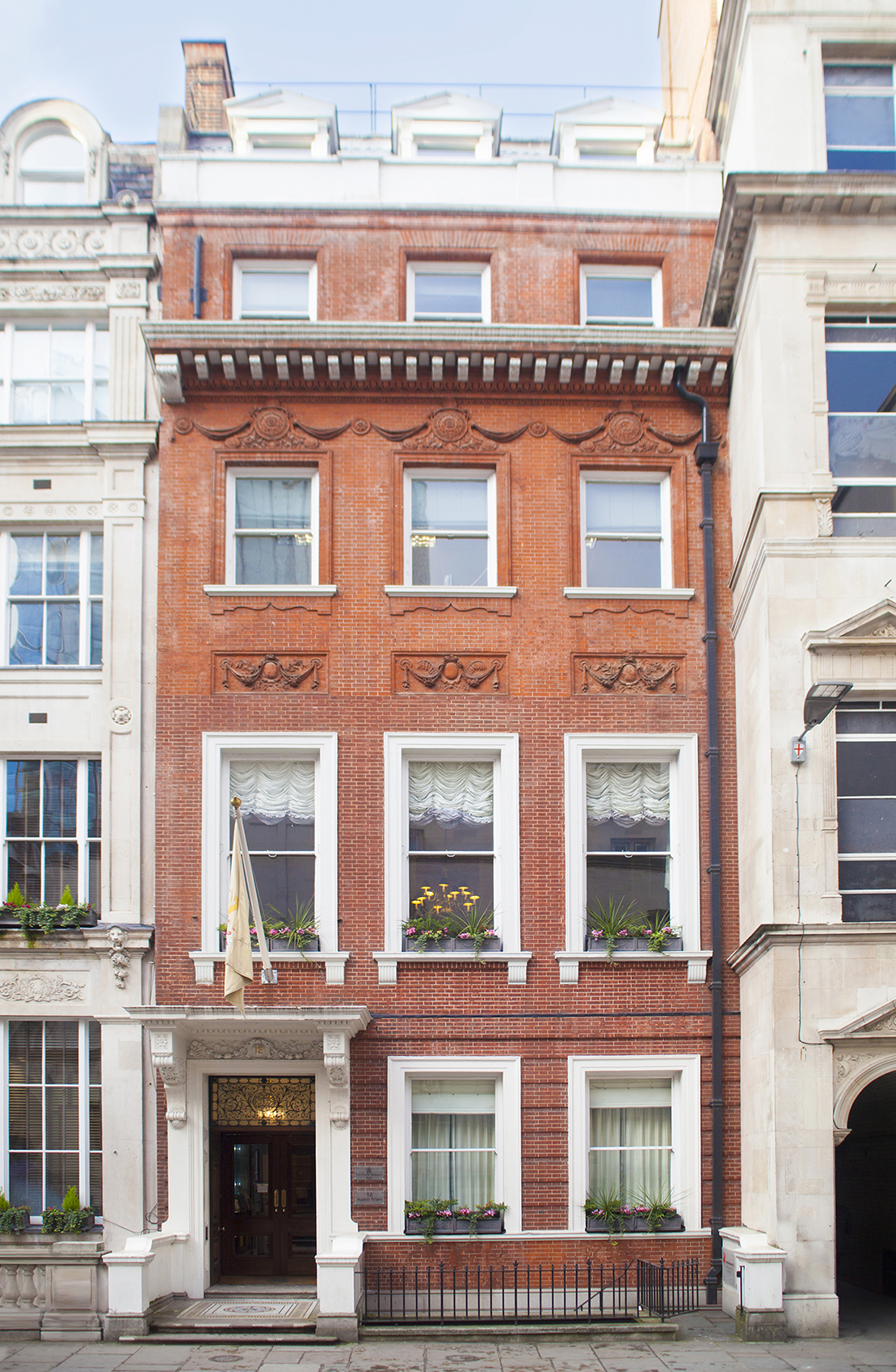 Photo of The Furniture Makers' Hall located in the heart of the City of London, UK.